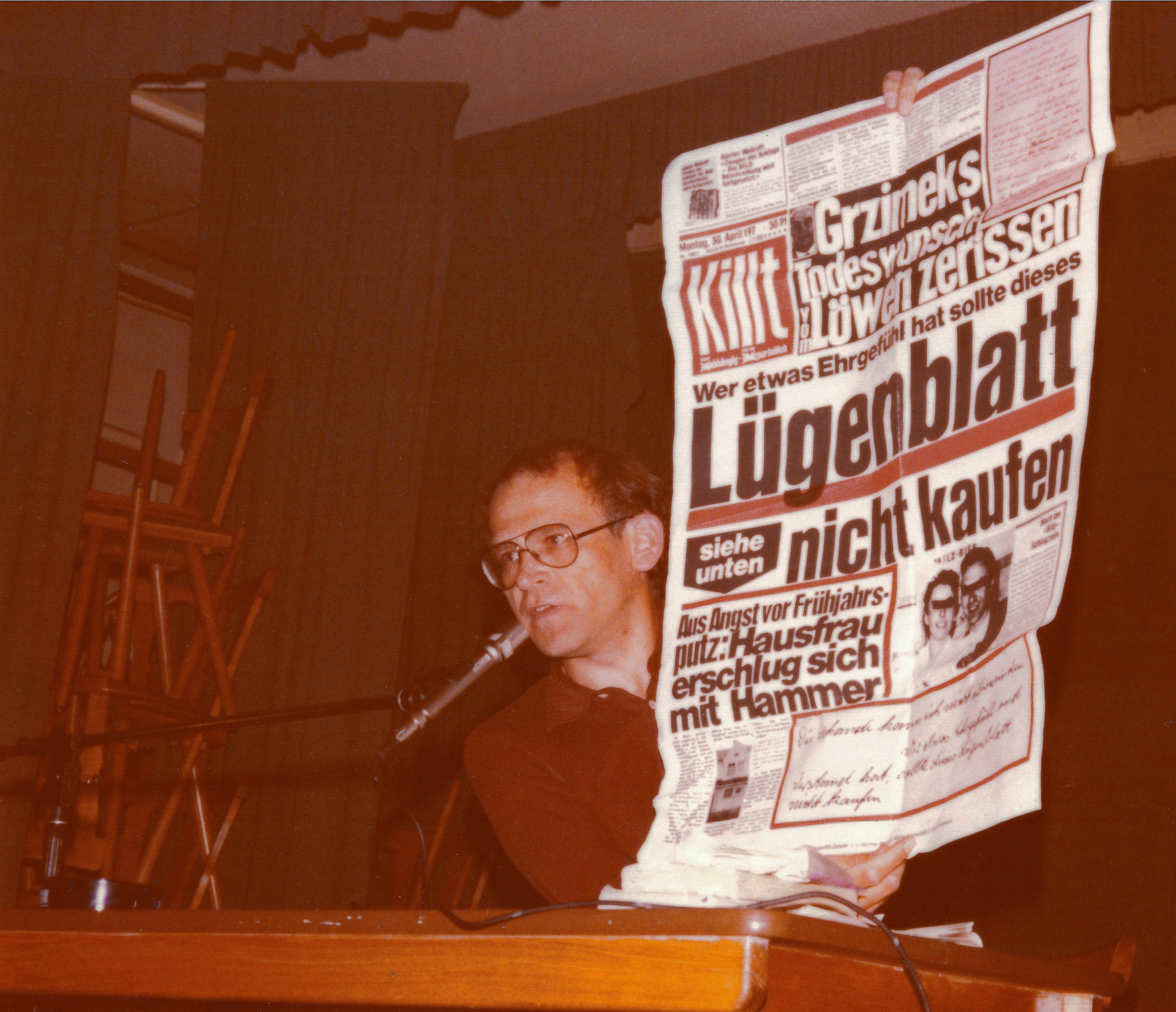 Guenter Wallraff during a reading at Schweinfurt inn 1981